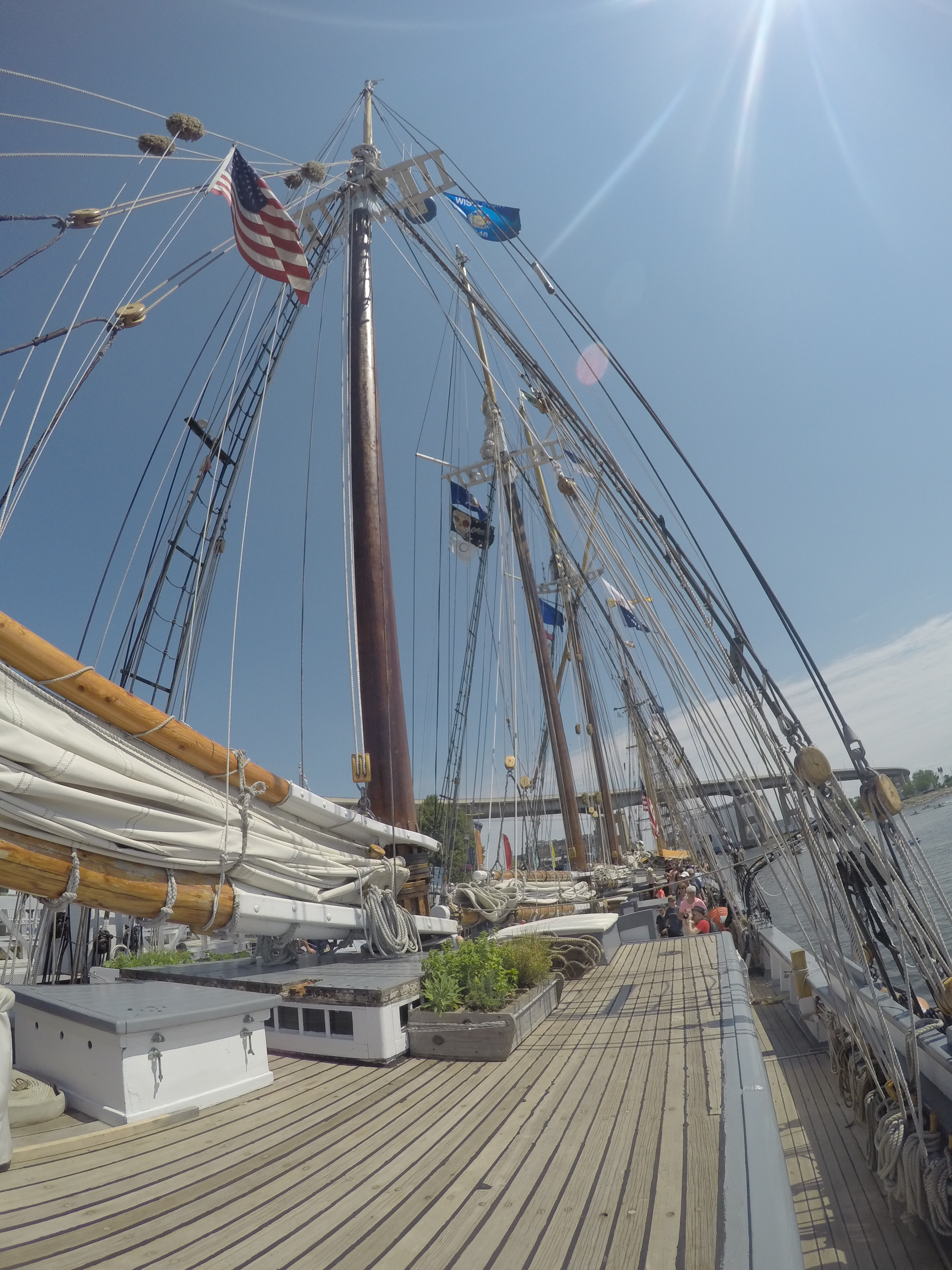 Deck during tours Buffalo, New York Tall Ships Festival July 07, 2019